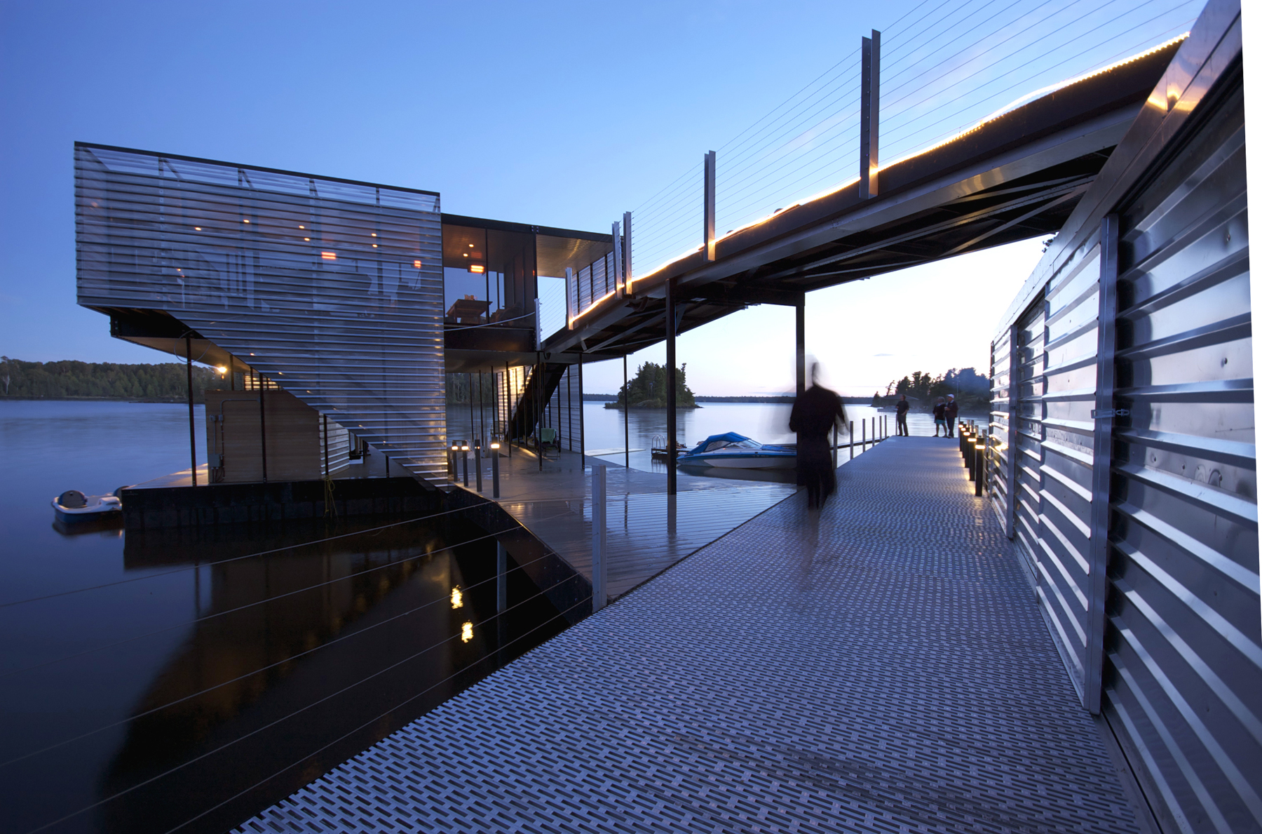 Guertin Boatport by 5468796 Architecture, Winnipeg, Manitoba